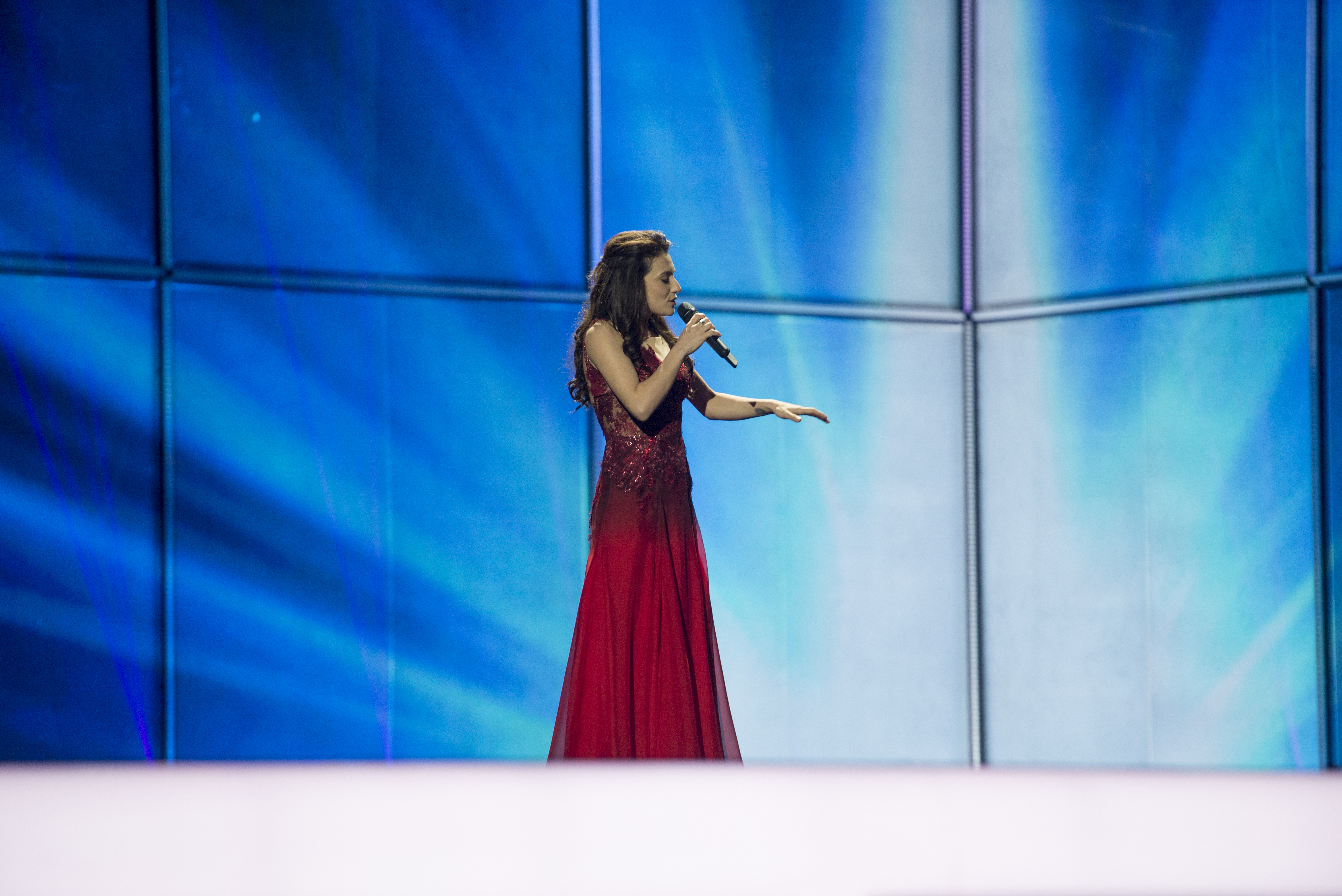 Dilara Kazimova representing Azerbaijan with the song "Start a Fire" during the first dress rehearsal of the first semi final of the Eurovision Song Contest 2014 Copenhagen. (Help translate this text)